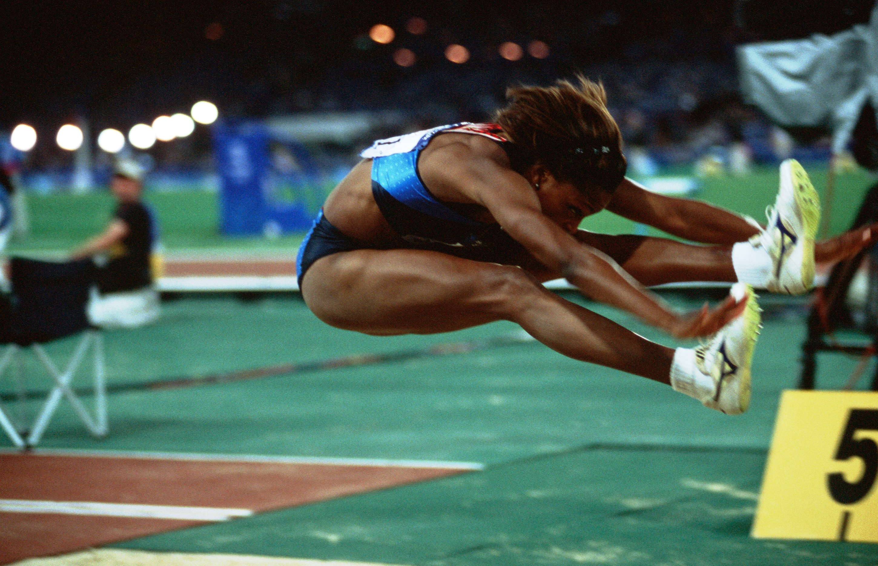 Right side profile, medium shot, of Dawn Burrell as she is caught in mid flight heading for the sandpit during the Women's Long Jump competition at the 2000 Olympic games in Sydney, Australia, on September 27th, 2000.